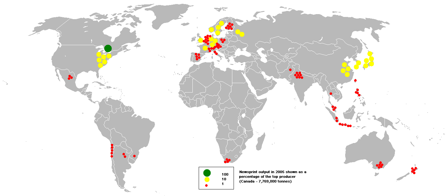 This bubble map shows the global distribution of newsprint output in 2005 as a percentage of the top producer (Canada - 7,769,000 tonnes). This map is consistent with incomplete set of data too as long as the top producer is known. It resolves the accessibility issues faced by colour-coded maps that may not be properly rendered in old computer screens. Data was extracted on 16th June 2007. Source - Based on :Image:BlankMap-World.png